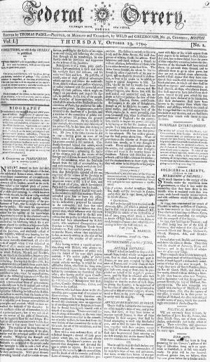 Federal Orrery; Date: 10-23-1794; (Boston, Massachusetts) Further information: American Antiquarian Society. Catalog.